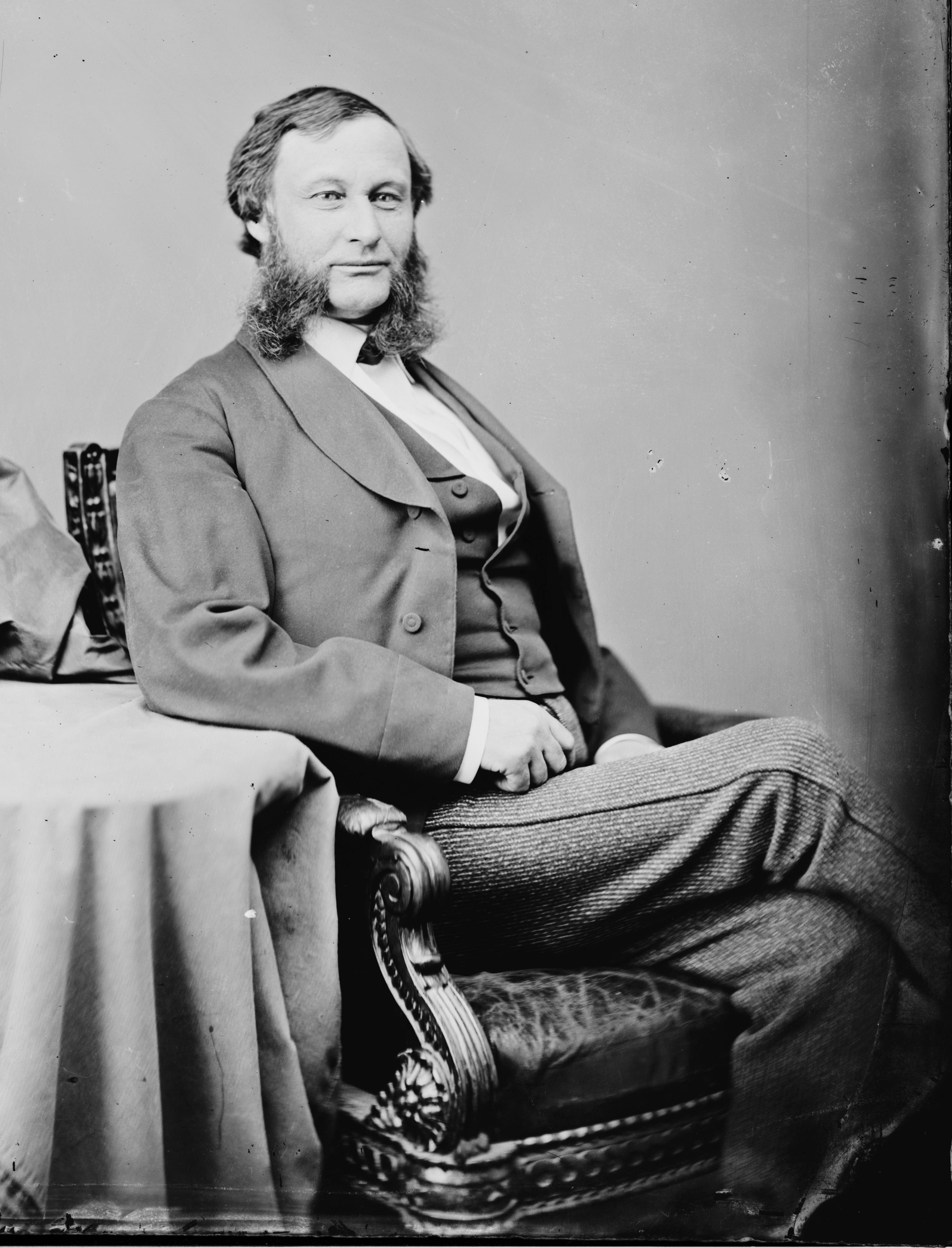 Daniel Myers Van Auken. Library of Congress description: "Hon. Daniel Myers Van Auken of Pa."